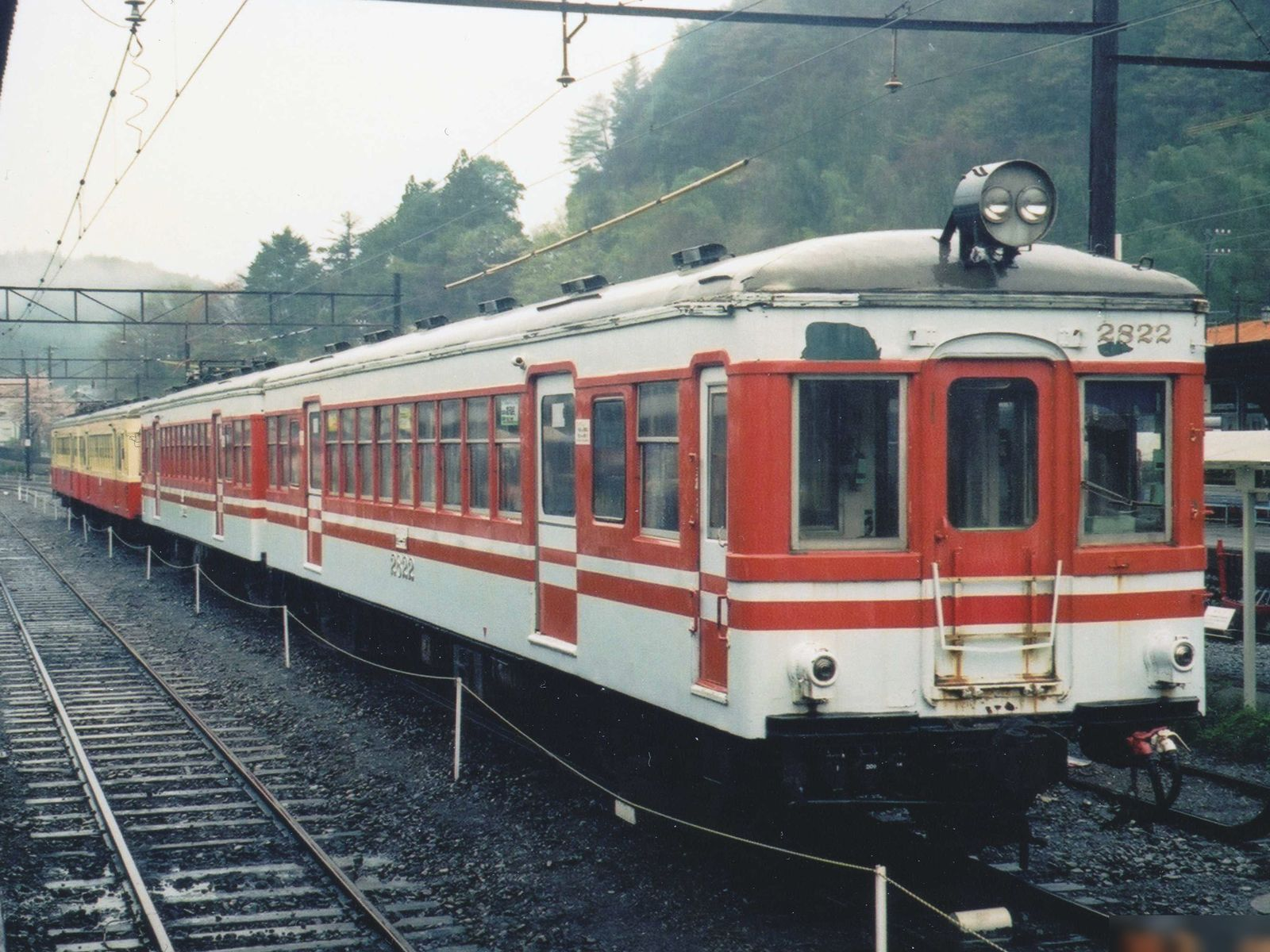 Oigawa Railway type 3800. at Senzu Sta. 1997.04.06 Photo by Cassiopeia_sweet.